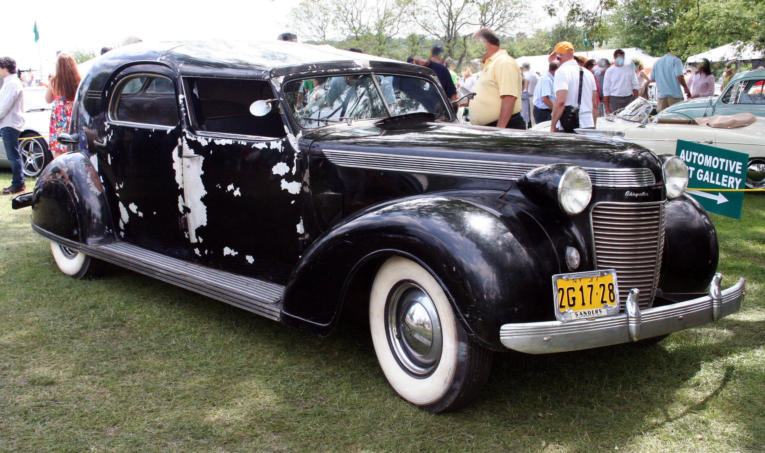 1937 Chrysler Imperial Town Car, originally ordered to these custom specifications by Walter P. Chrysler himself. Seen in original, patinaed condition at the 2012 Greenwich Concours d'Elegance.